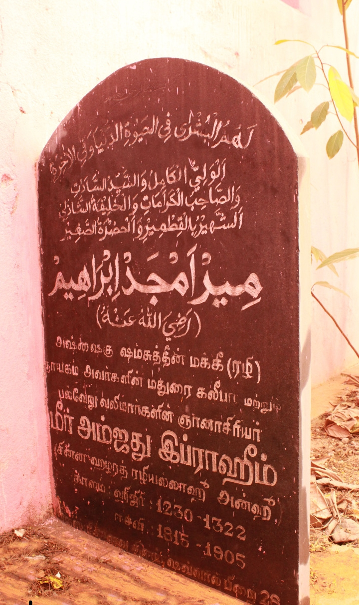 China Hazrat plaque